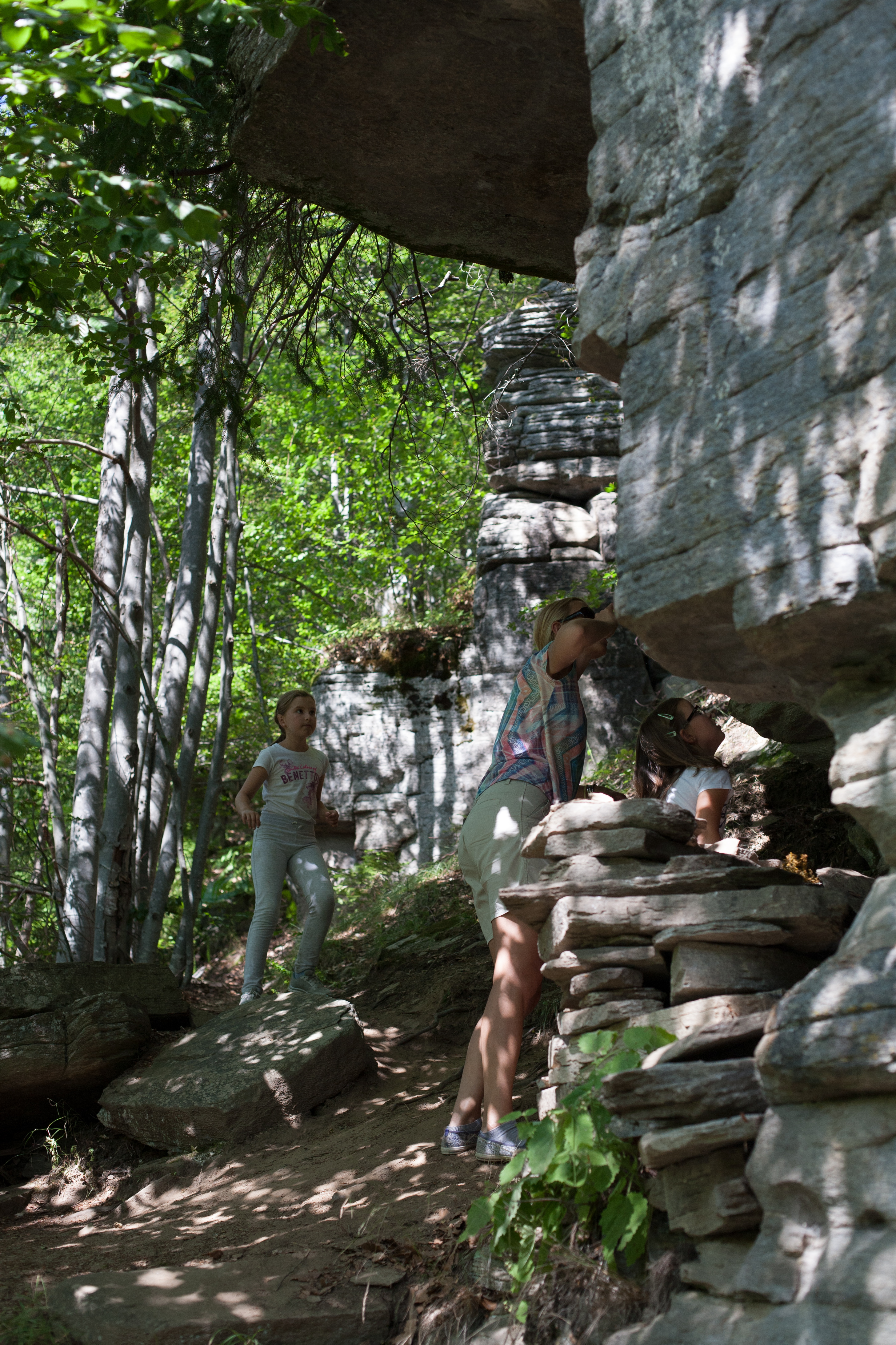 The rock that contains the Sitovo inscription